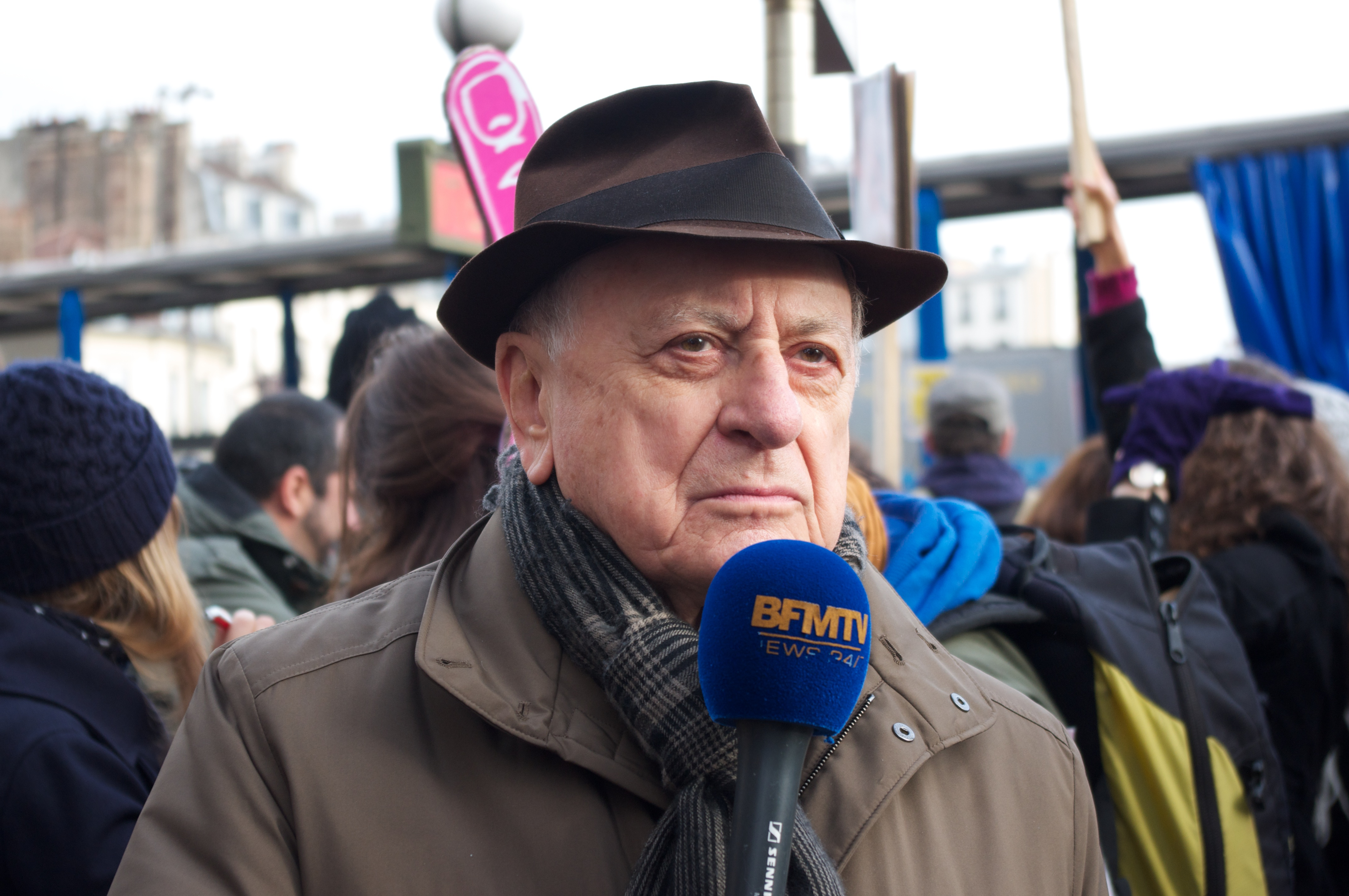 Pierre Bergé at the demonstration in support of the bill of same-sex marriage, Paris, December 16, 2012